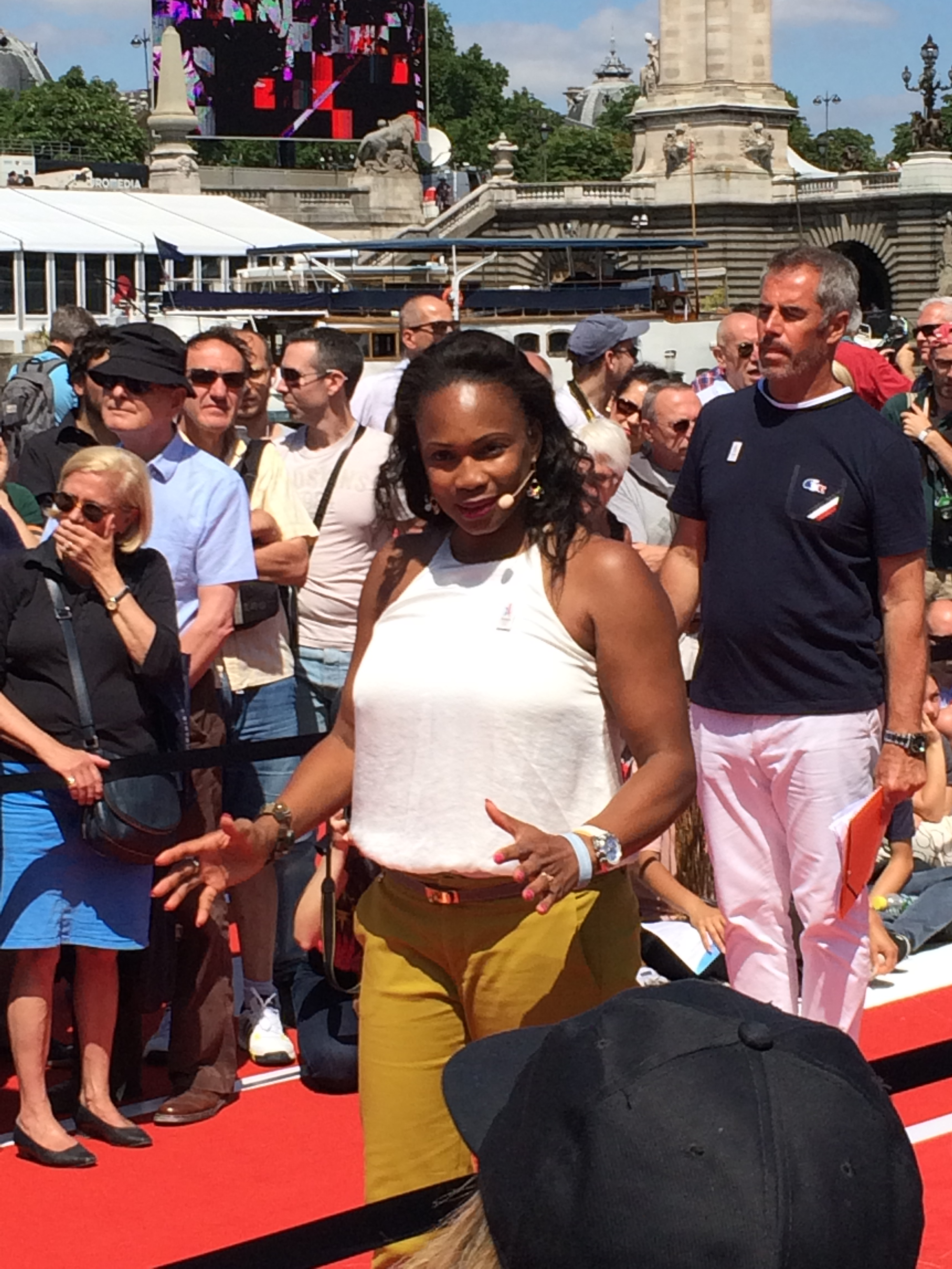 Picture of Laura Flessel.